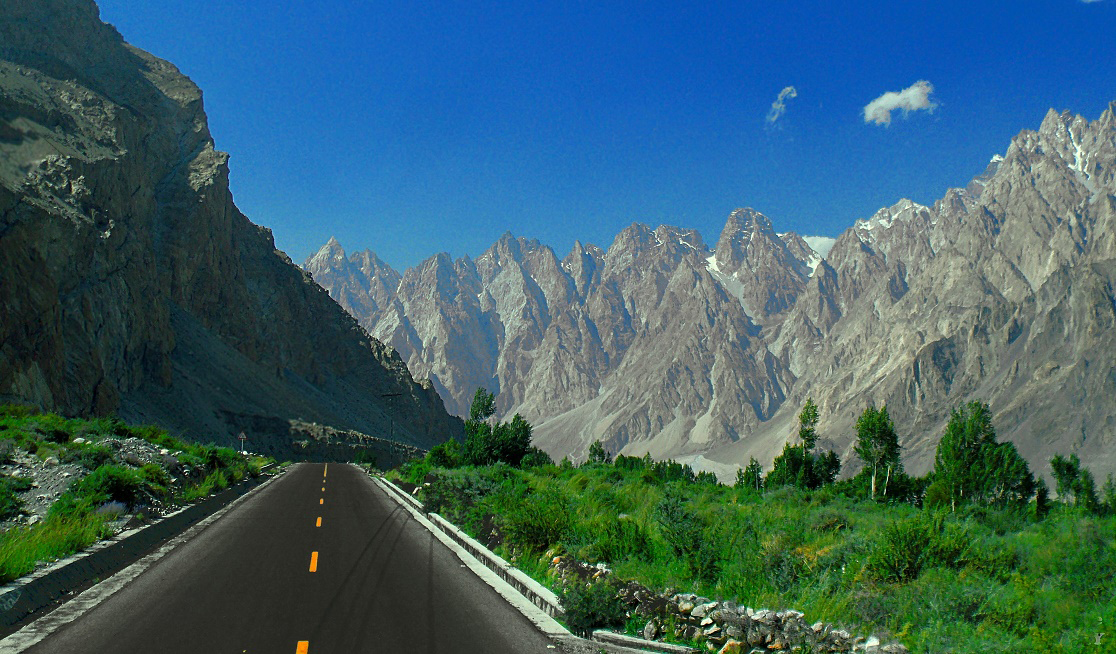 kkh road